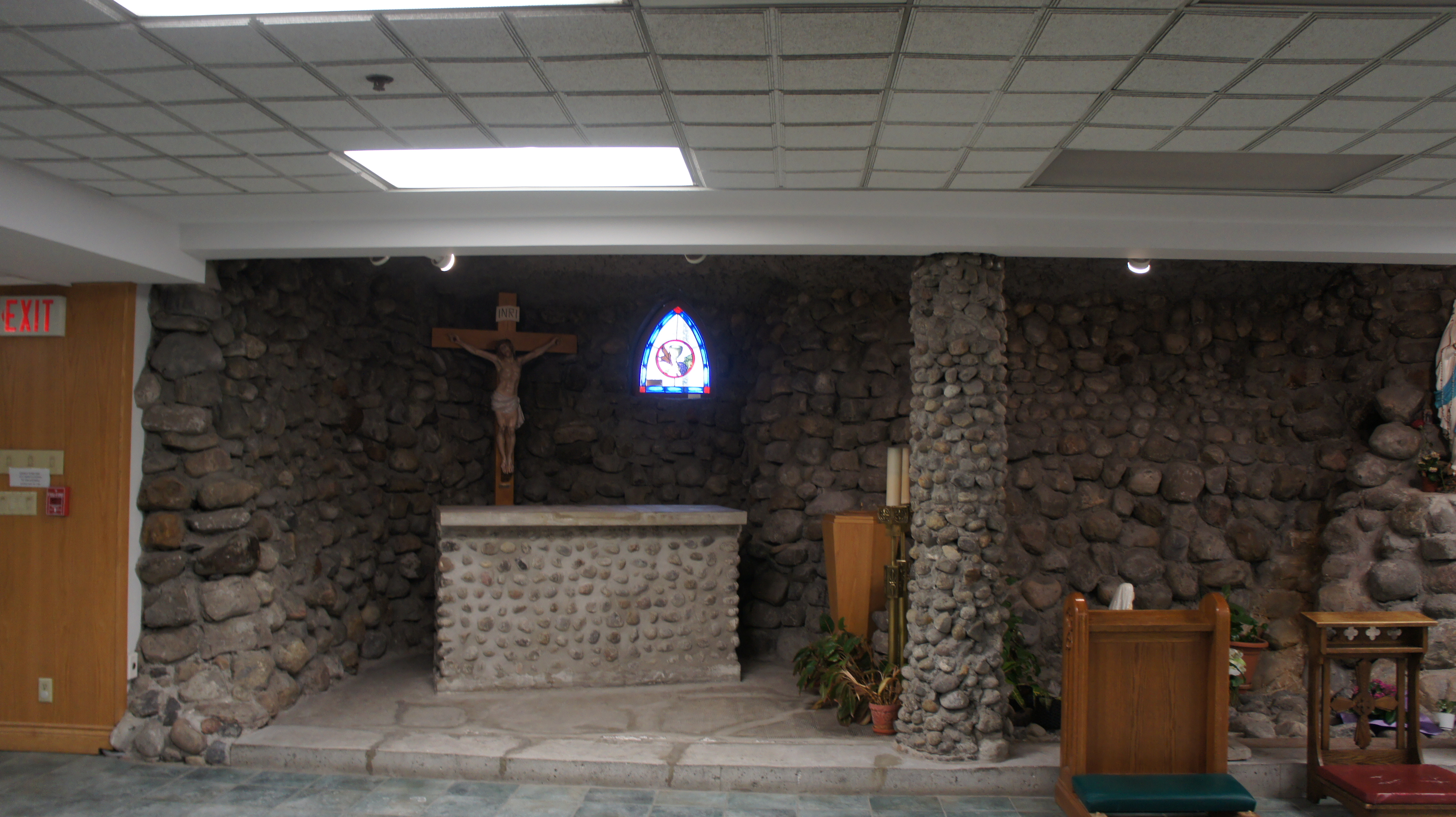 The Lourdes Grotto in St Patrick's Basilica, Ottawa, ON.